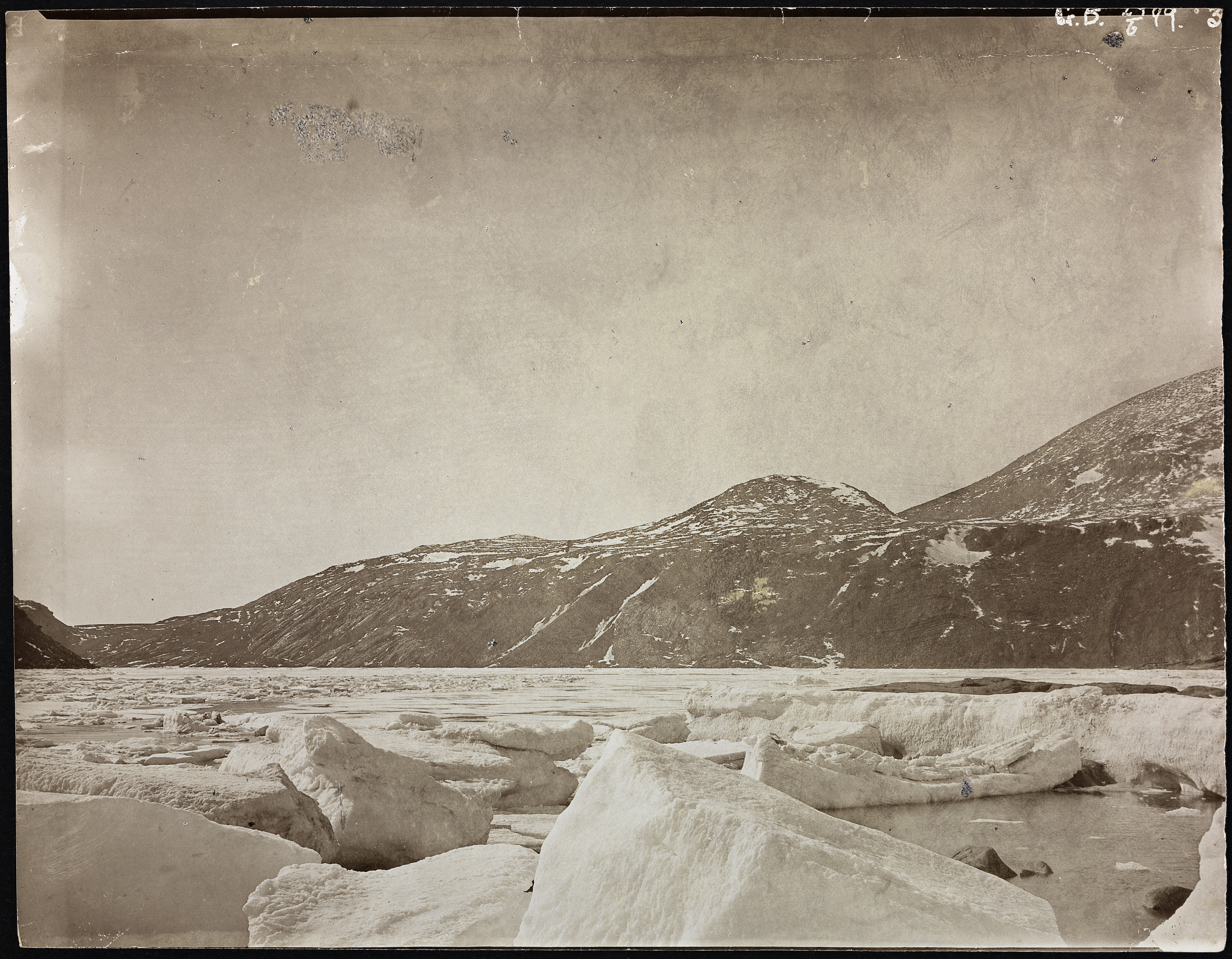 Beskrivelse / Description: 2. Fram-ekspedisjon: Nord-vest-Grønland og øyene nord for Øst-Canada : 1898-1902 / 2nd "Fram" expedition : Northwest Greeland and the islands North of East Canada Dato / Date: 29. juni 1899 / 29th of June 1899 Sted / Place: Canada, Nunavut, Ricestredet / Rice Strait Fotograf / Photographer: ukjent / unknown Digital kopi av original / Digital copy of original: s/h papirpositiv Eier / Owner Institution: Nasjonalbiblioteket / National Library of Norway Lenke / Link: Bildesignatur / Image Number: bldsa_SVpos_0030